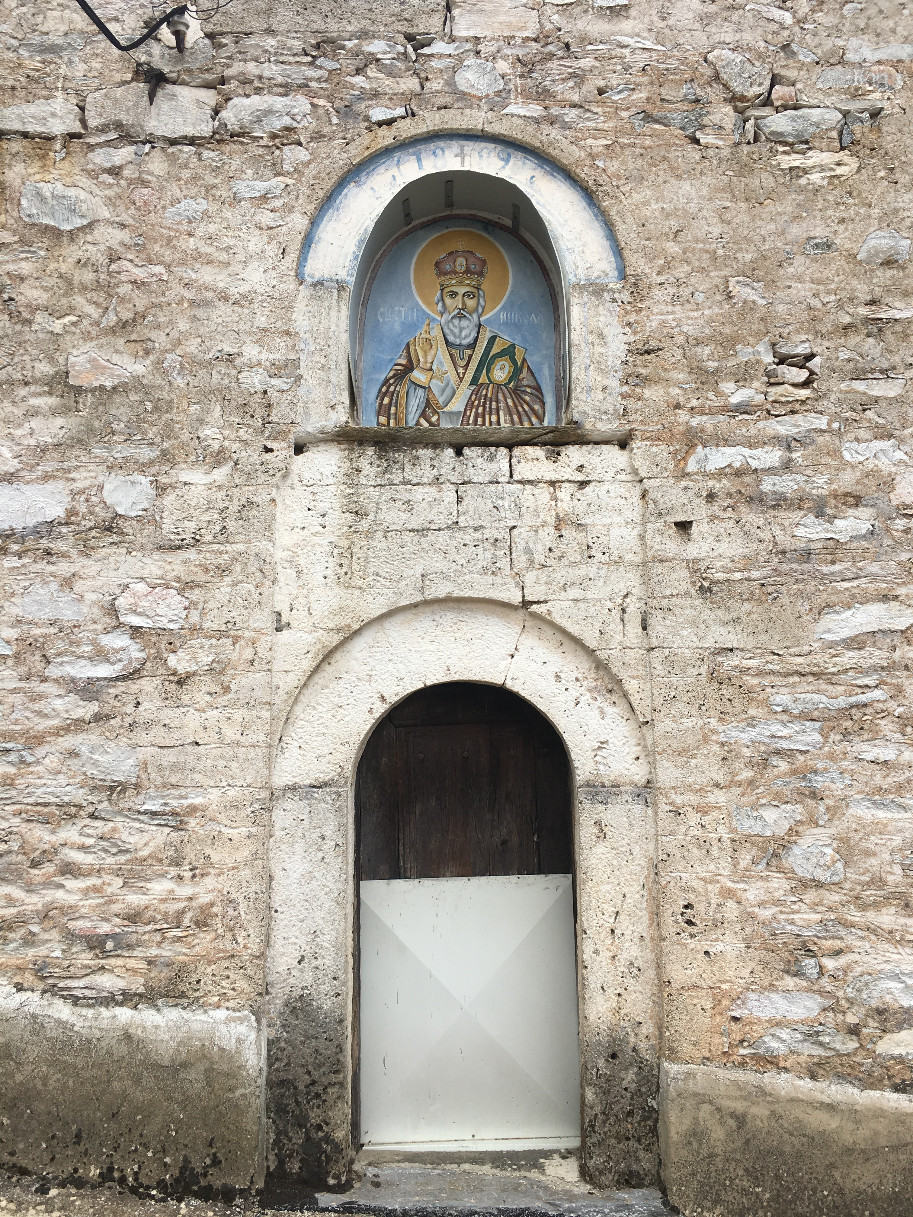 Wikiexpedition to Kopačka